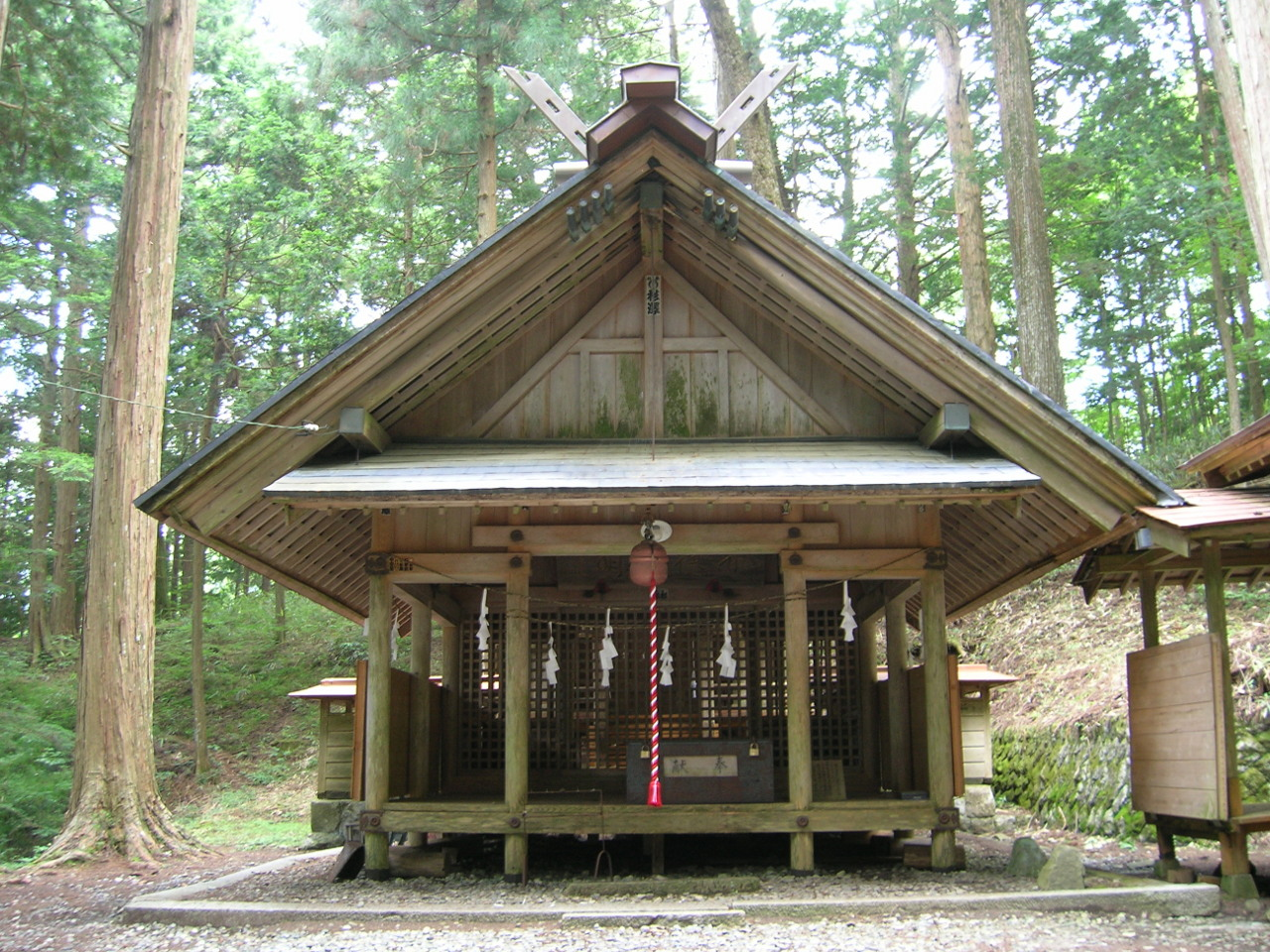 Namiai Jinja. Loc: Achi village, Shimoina District, Nagano prefecture, Japan. 浪合神社 拝殿 撮影場所 長野県下伊那郡阿智村